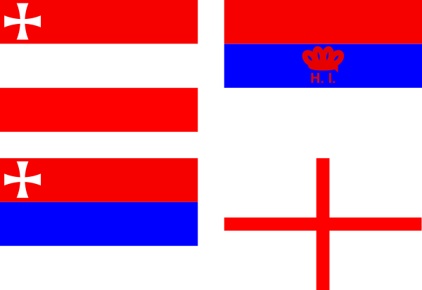 Proposed and unofficial variants of the civil ensign (merchant flag) of Montenegro, during the reign of Prince Nicholas I (1860-1918); the official civil ensign, adopted on 8 March 1881, was tricolor flag (red, blue, white) with golden crown and monogram.